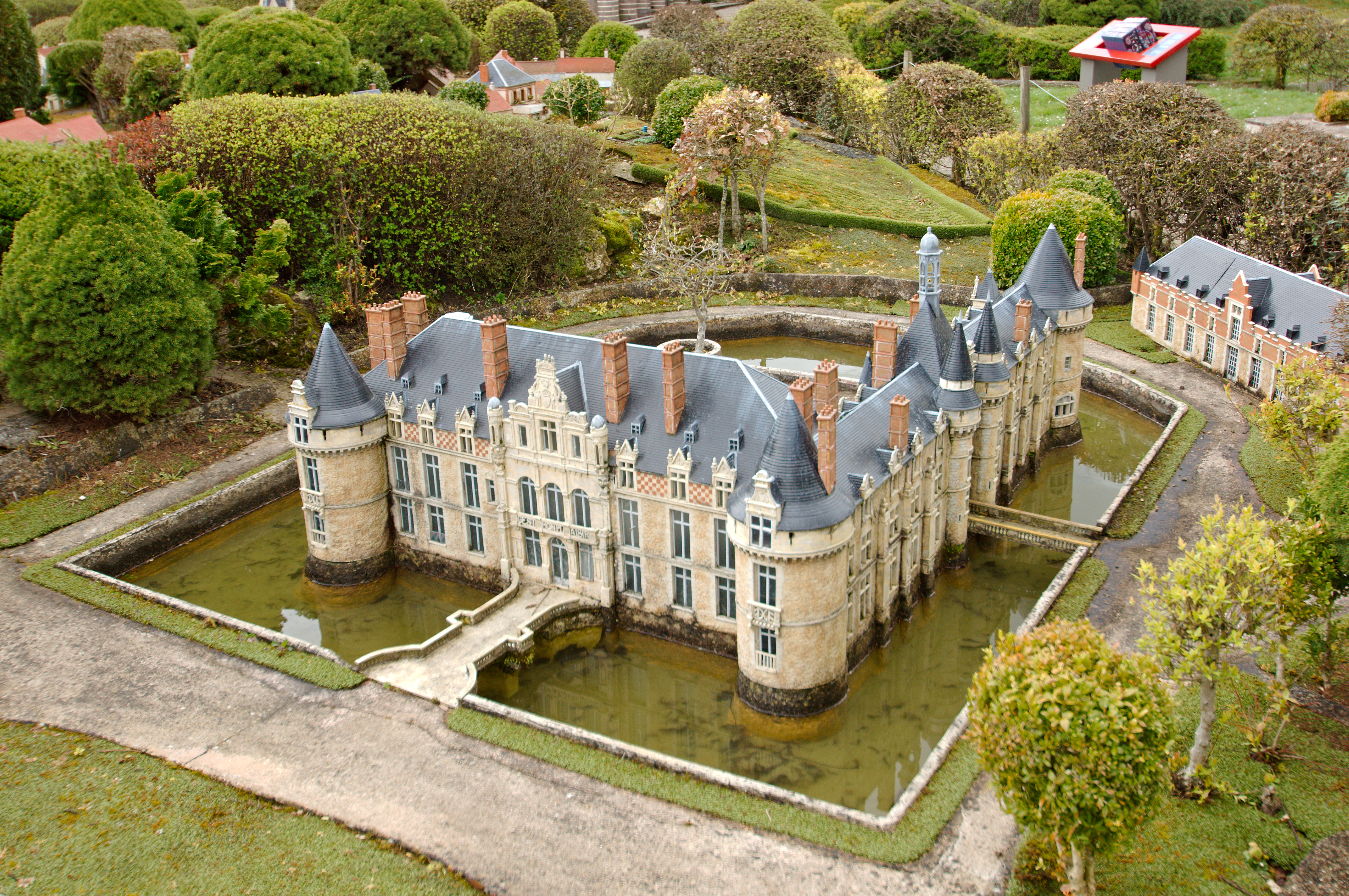 France Miniature, a miniature park tourist attraction in Élancourt, France.